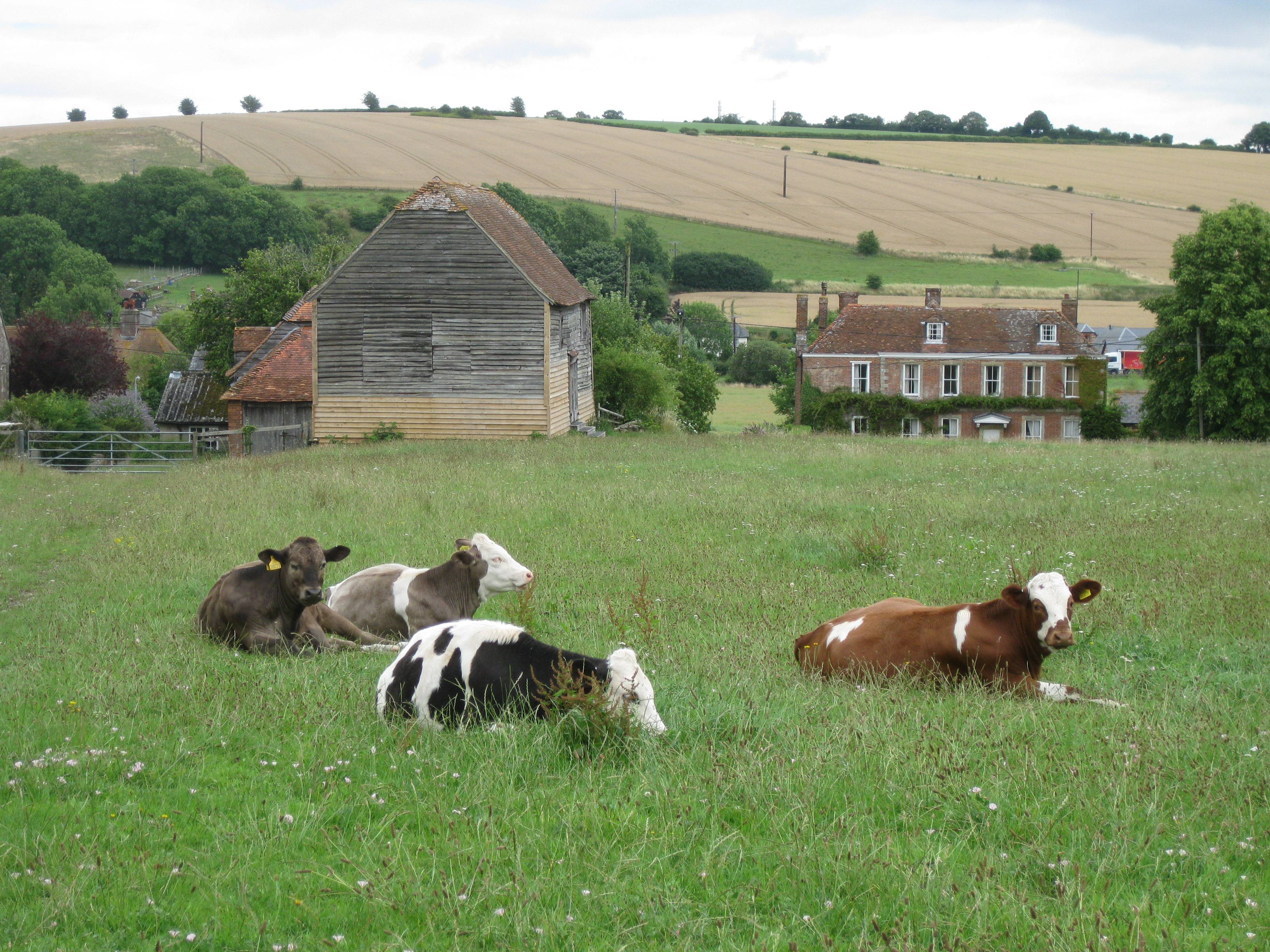 Oak Apple Field, Great Wishford, Wiltshire, England, taken from Station Road looking East.